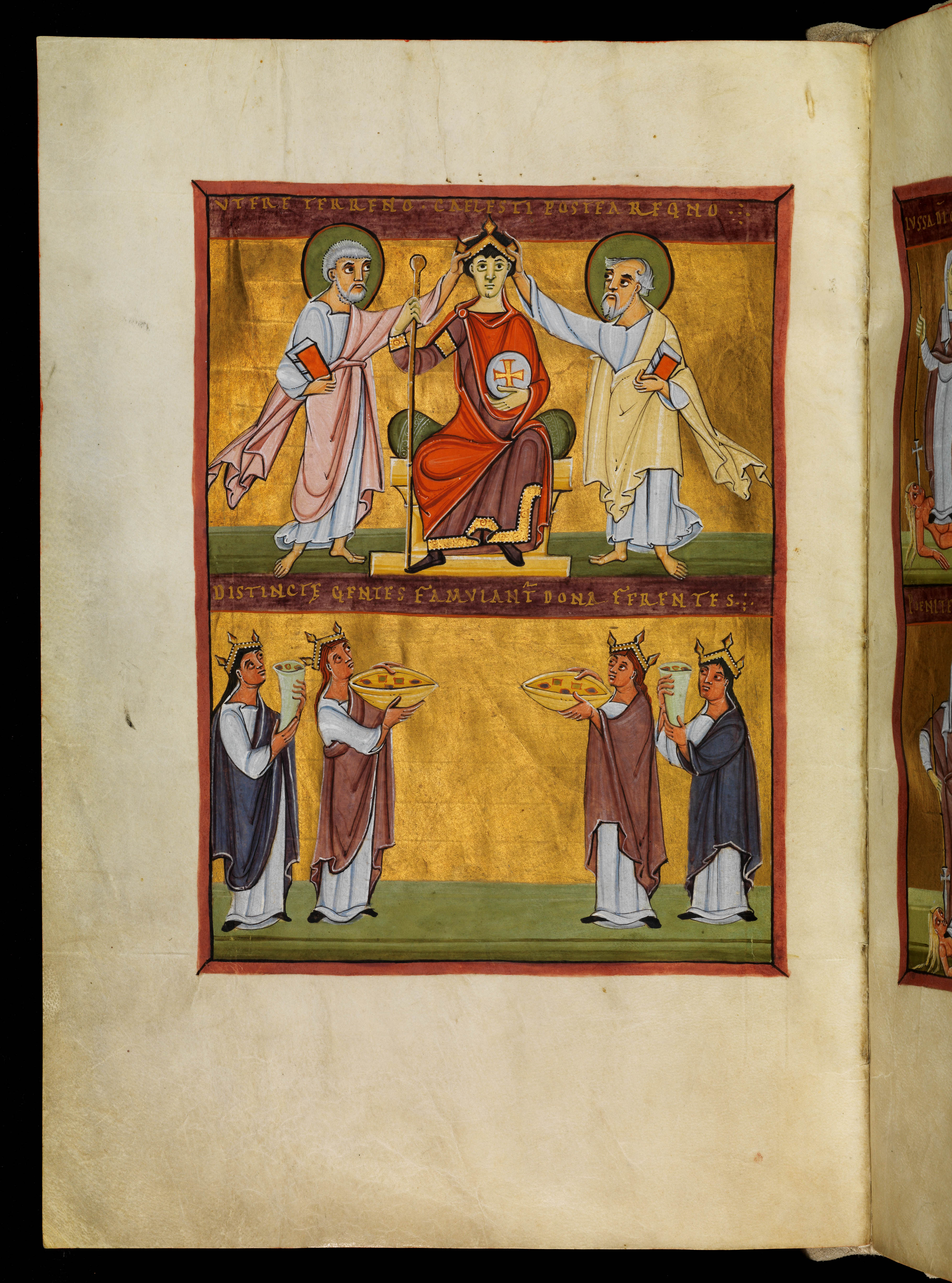 The coronation of the Emperor (Otto III or Henry II) Folio 59v